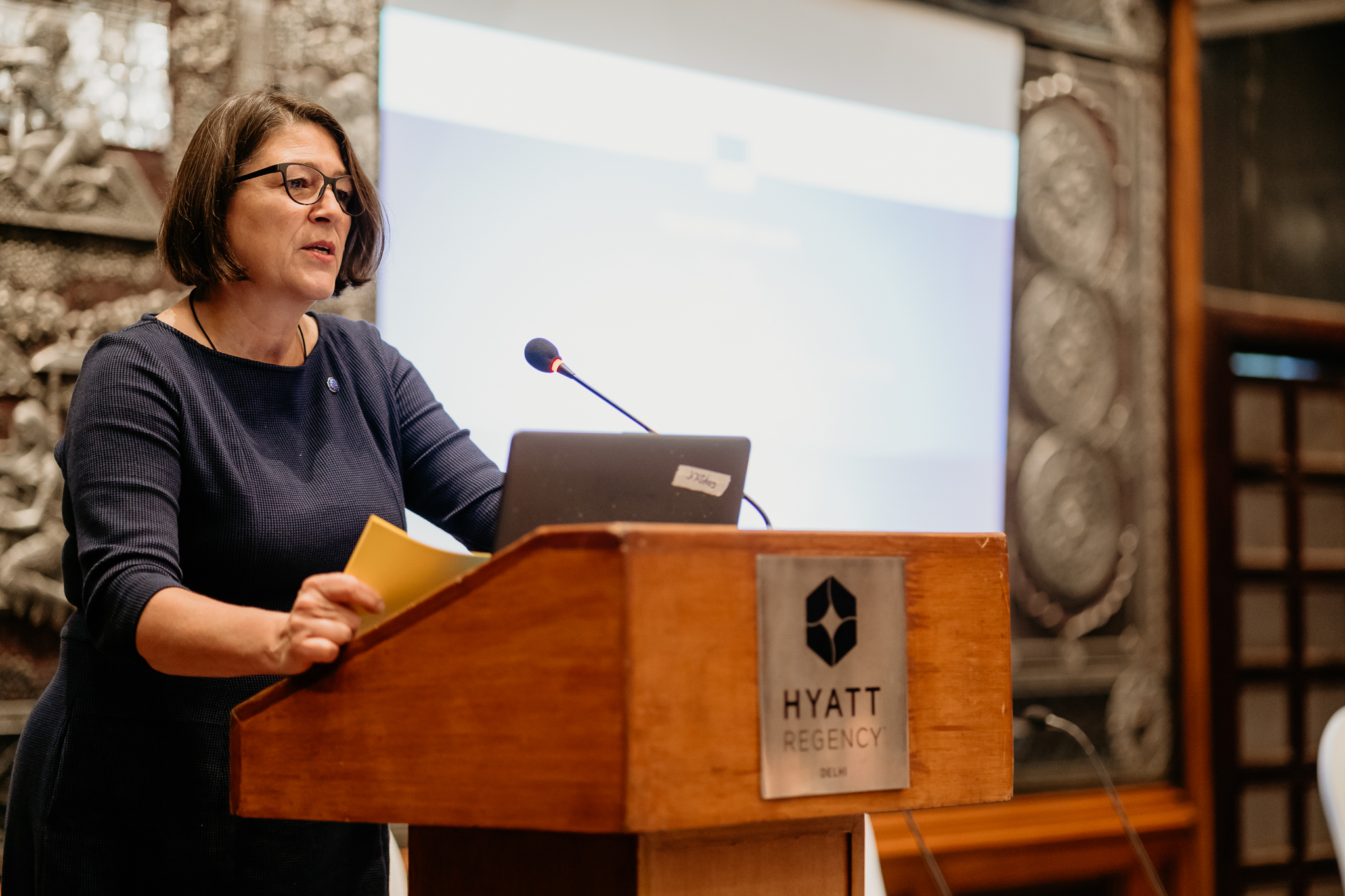 Mrs Violeta Bulc, the EU's Transport Commissioner, delivers a keynote speech during the opening session of the 8th International Railway Summit in New Delhi on 21 November 2019. © 2019 IRITS Events Ltd. Photo: Akshat Jain